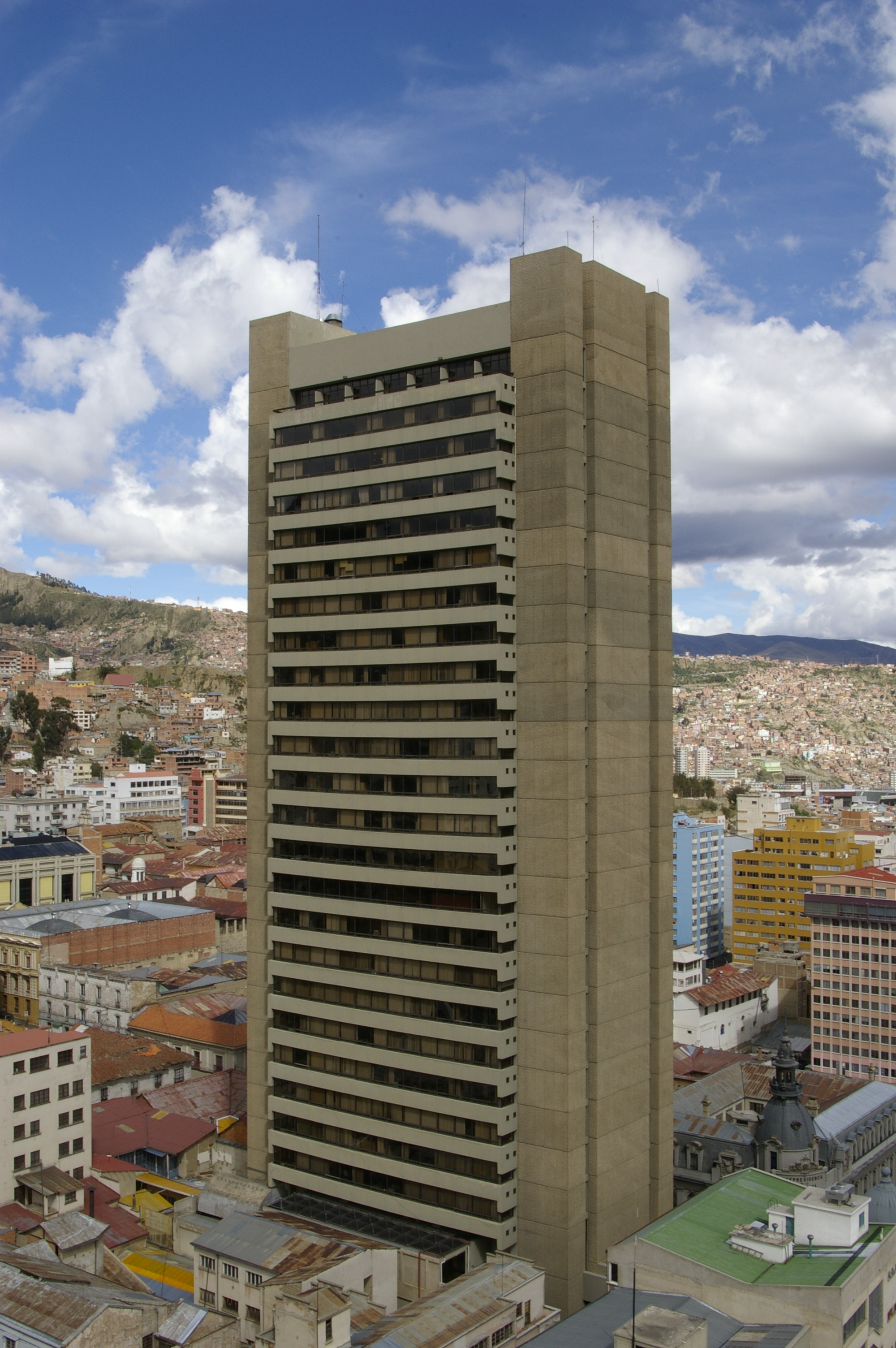 From memory, the large building is the central bank